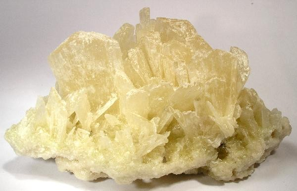 Trona Locality: Owens Lake, Owens Valley, Inyo County, California, USA (Locality at ) Size: 10.8 x 8.6 x 5.2 cm. From Owens dry lake in California, this cluster of trona, a hydrated sodium, hydrogen, carbonate, occurs in large, golden crystals to 4.5 cm in length. From a major find by John Seibel at a small mine out there, acknowledged to have produced best of species, in the late-90s. Ex. Martin Zinn Collection.